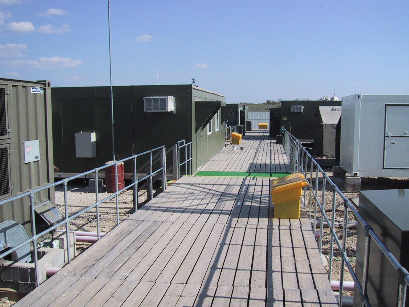 From the street of Suvi Bunar